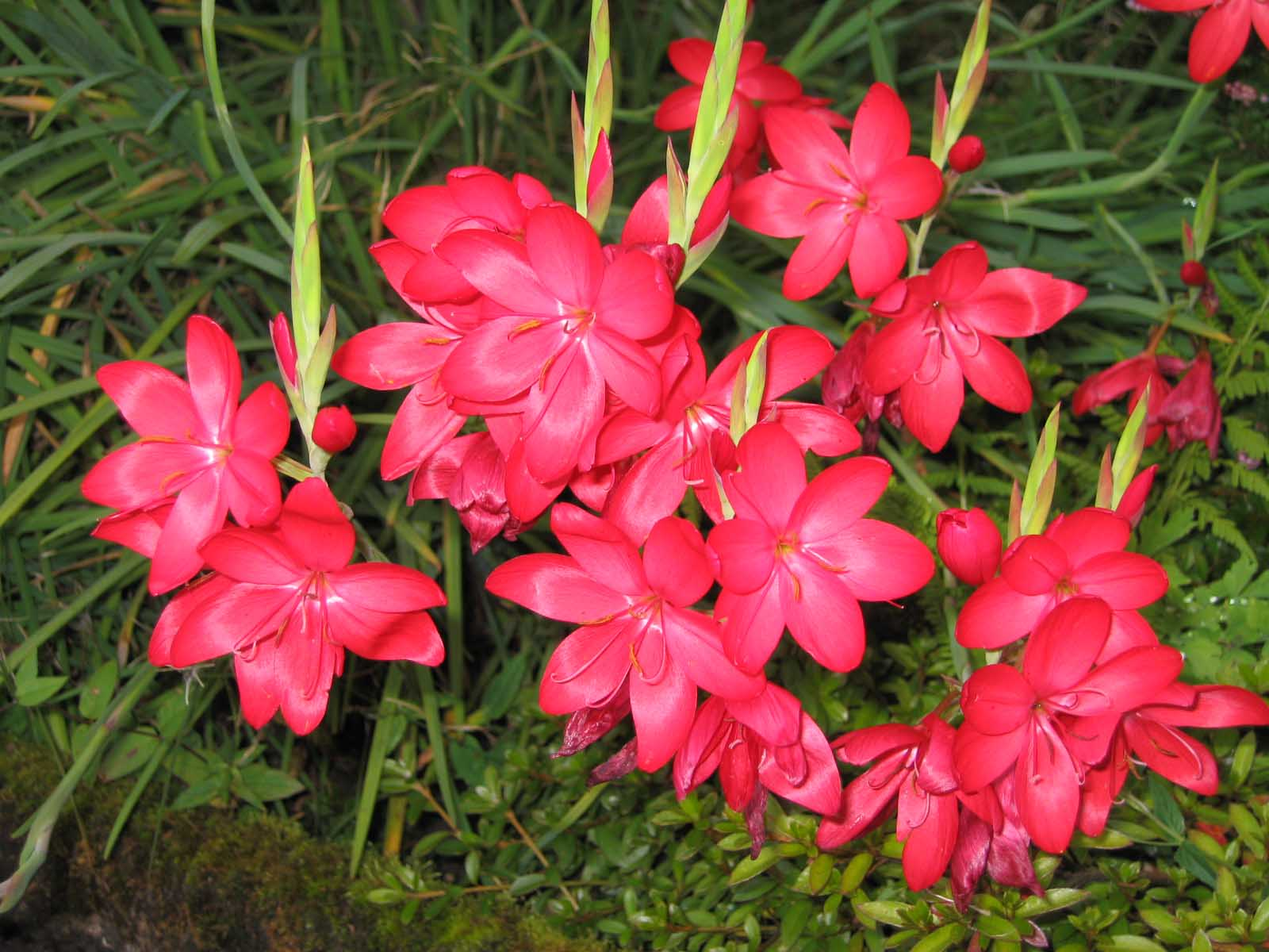 Crimson flag